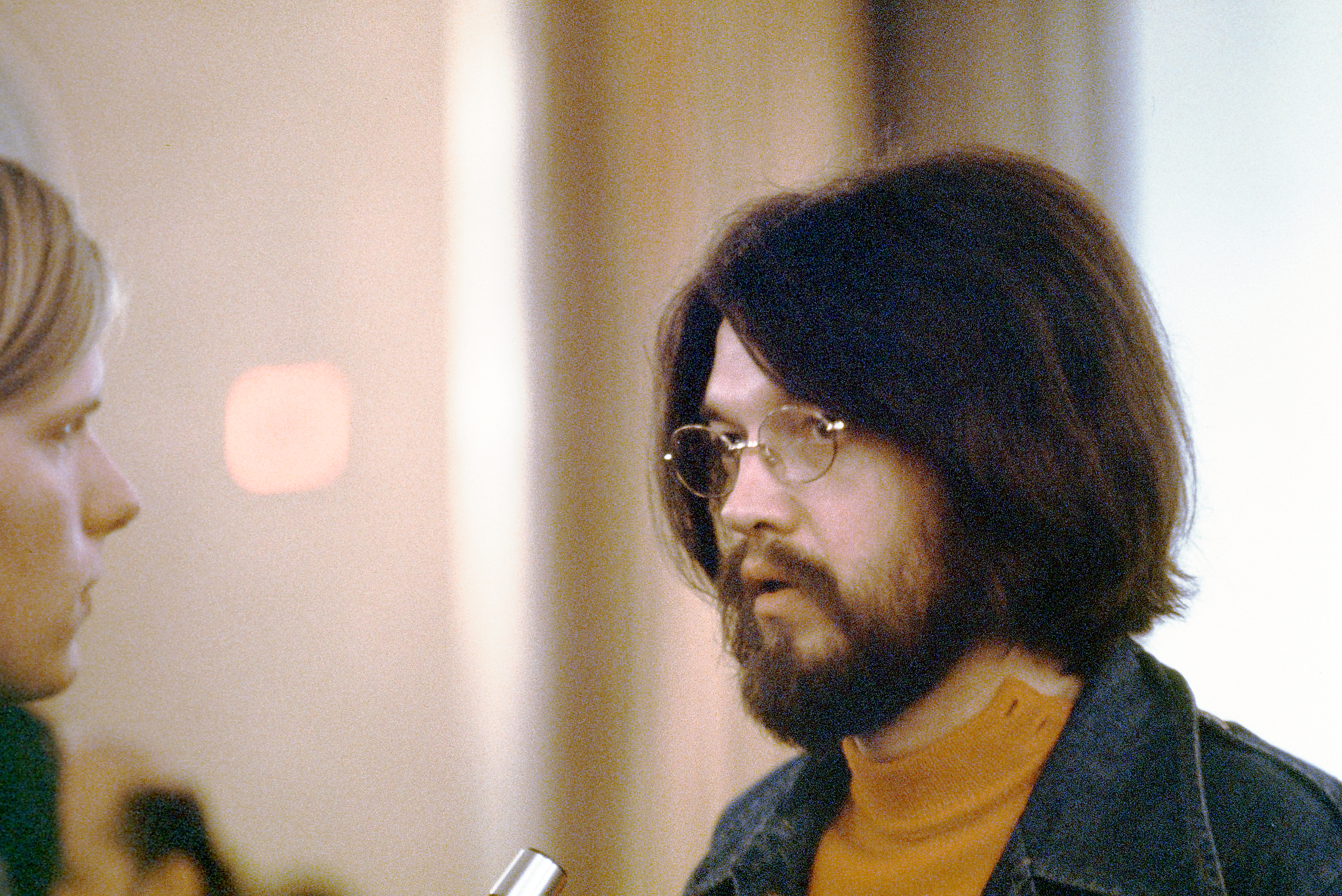 Nikita Mandrika in 1973 interviewed by Jacques Hurtubise, aka Zyx, in Montreal. Supplementary technical data: digitization of a 35mm slide. Original camera: Nikon F with 43-86mm Nikkor lens.